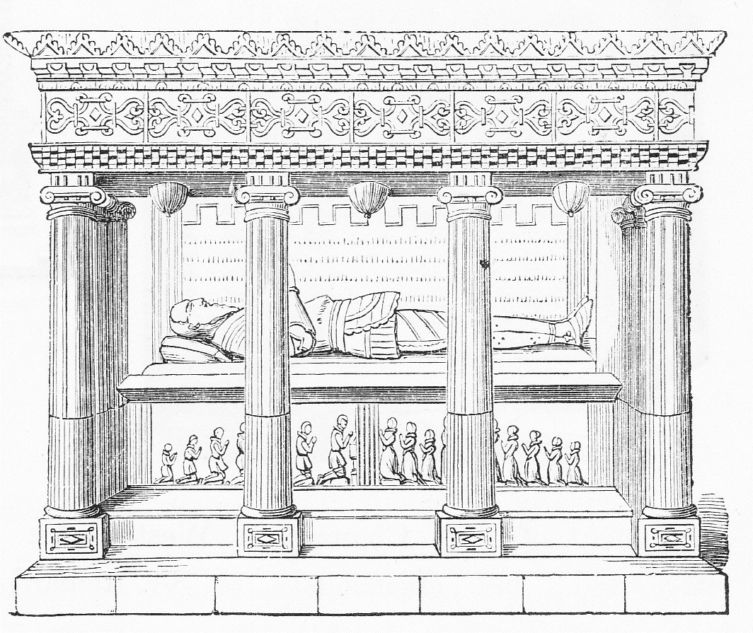 St Lawrence' parish church, East Harptree, Gloucestershire: monument to Sir John Newton (died 1568). The canopy with its Ionic columns was destroyed before 1881, but the effigy remains. Strapwork frieze